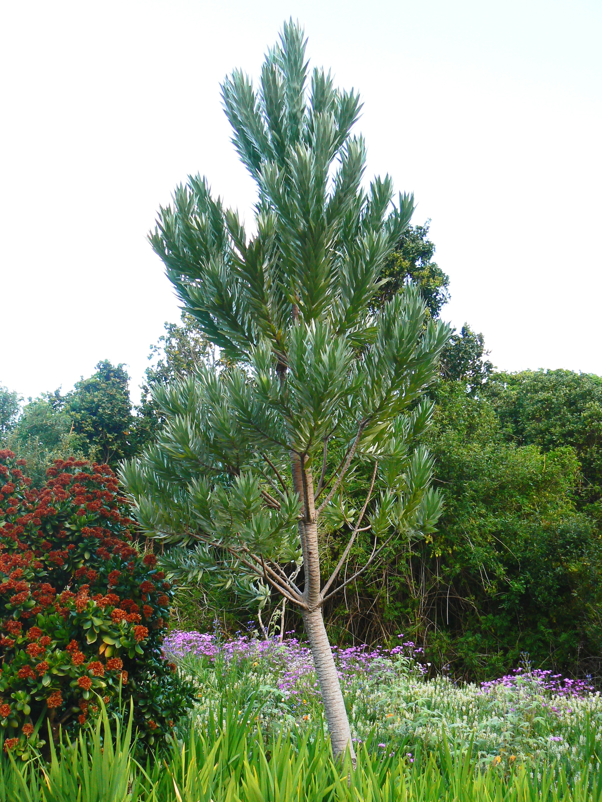 Leucadendron argenteum or Silvertree. Growing in gardens in Cape Town.